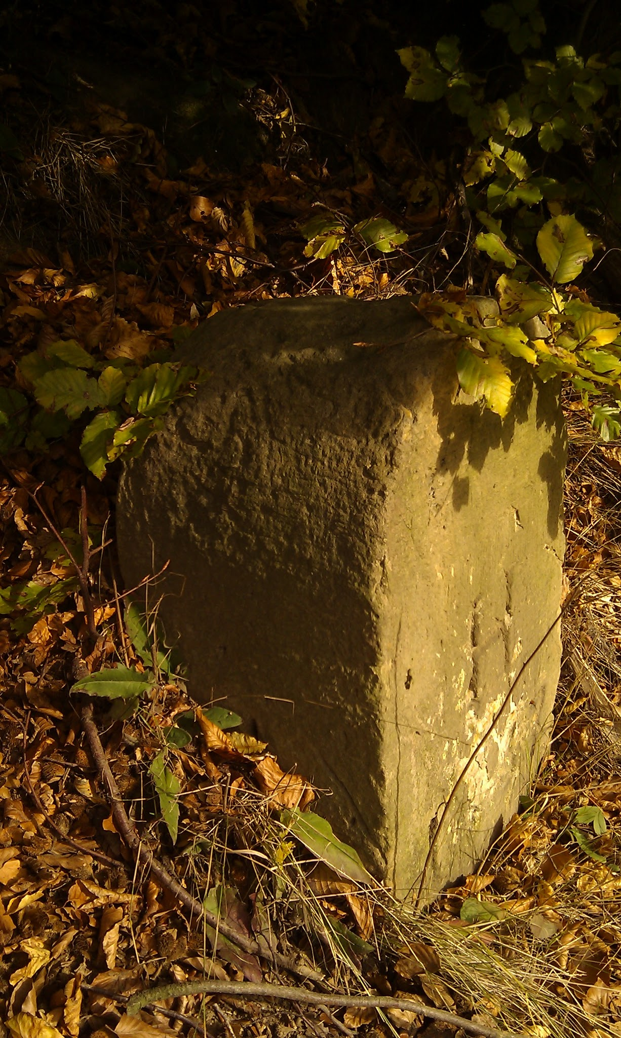 Boundary stone at former border between Kingdom of Prussia and Kingdom of Hannover in Rödinghausen, District of Herford, North Rhine-Westphalia, Germany.